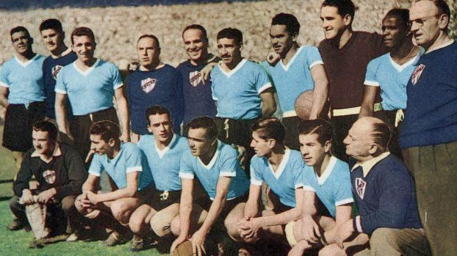 Team of Uruguay, world champions. Fltr (stood): Obdulio Varela, Juan López Fontana (coach), Eusebio Tejera, Vazquez (staff), Abate (assistant coach), Schubert Gambetta, Juan C. González, Roque Máspoli, Víctor Andrade, Kirshberg (staff); (down): Alvarez (staff), Alcides Ghiggia, Julio Pérez, Oscar Míguez, Juan Schiaffino, Rubén Morán, Figoli (staff)